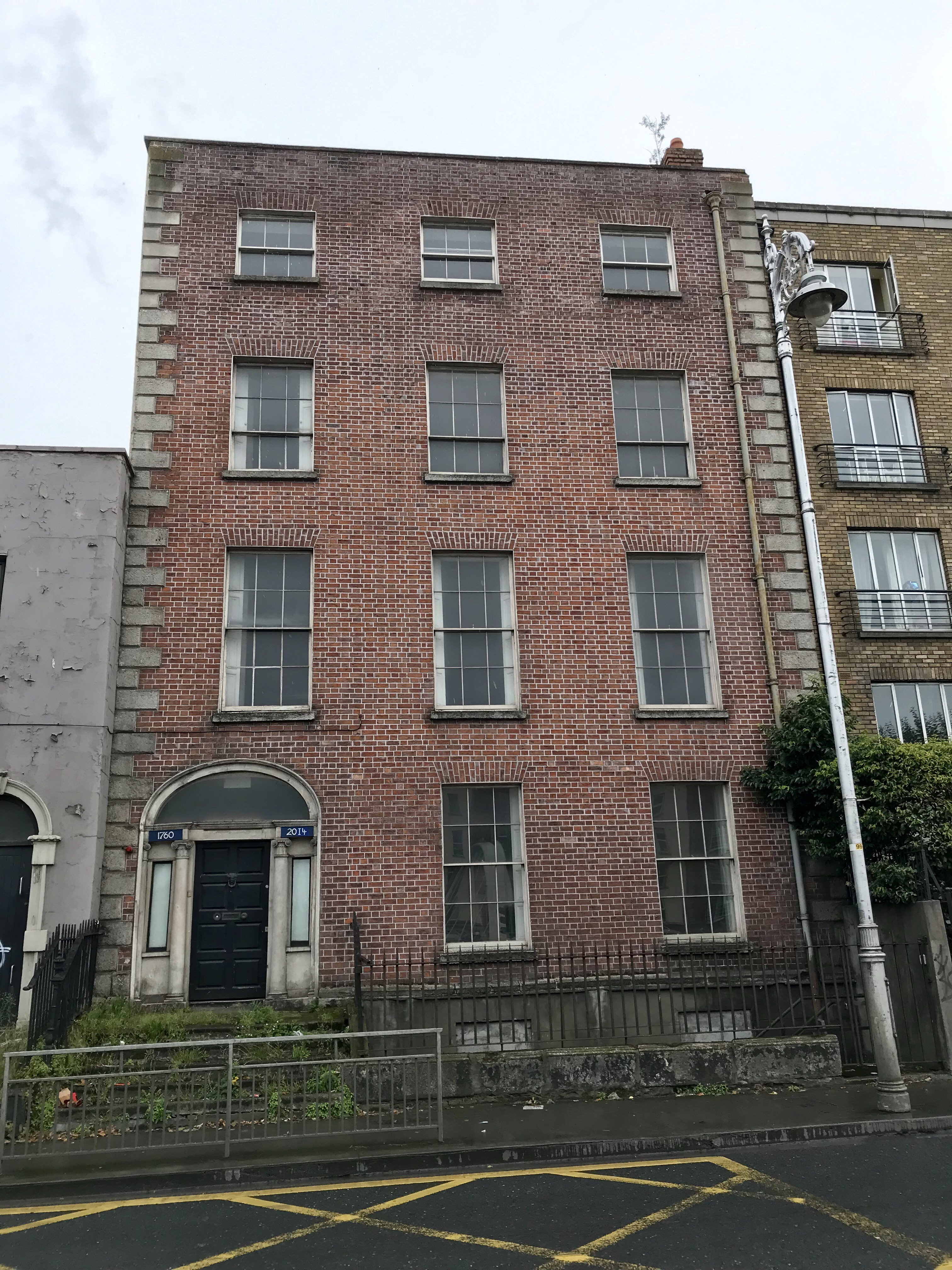 15 Usher's Island in Dublin, the building whose upper two floors were rented by James Joyce’s great aunts, and which was the model for "the dark gaunt house on Usher's Island" that is the setting for Joyce’s short story "The Dead".